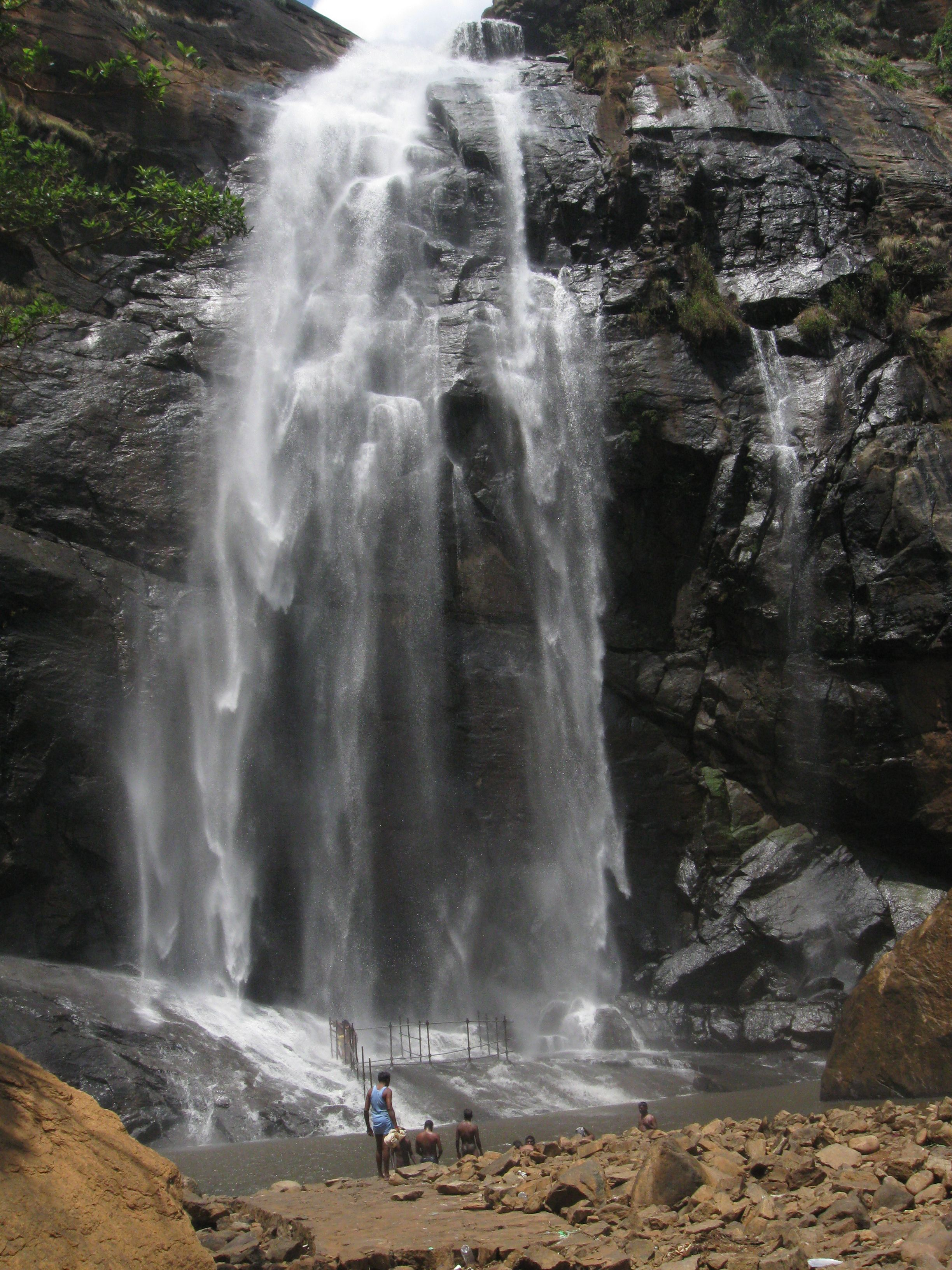 Kolli HIlls Tamil Nadu, India